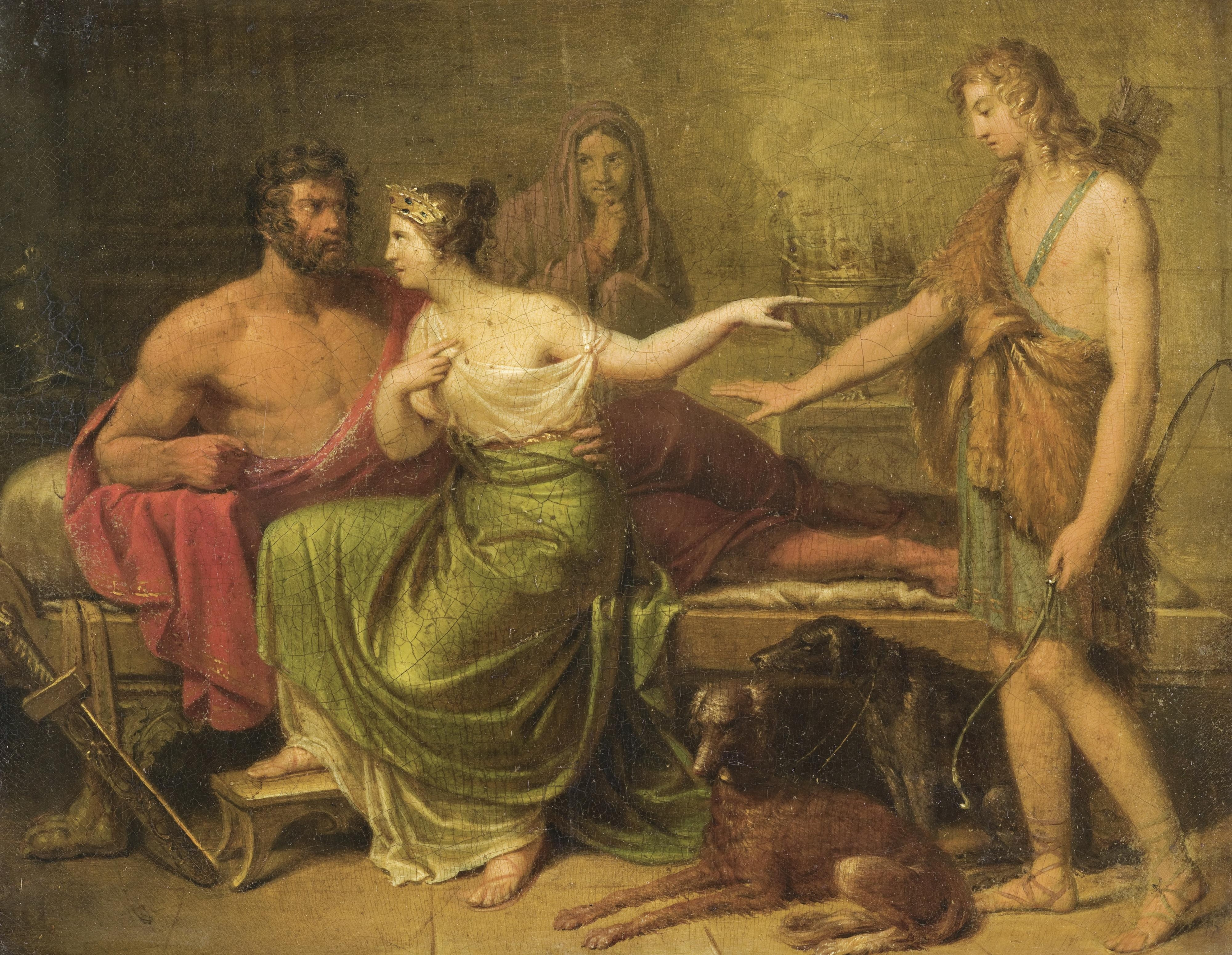 Artwork Details Dimensions: 9.62 X 12.25 in (24.43 X 31.12 cm) Medium: oil on canvas Creation Date: 18th Century German School, 18th Century Hippolytus, Phaedra and Theseus